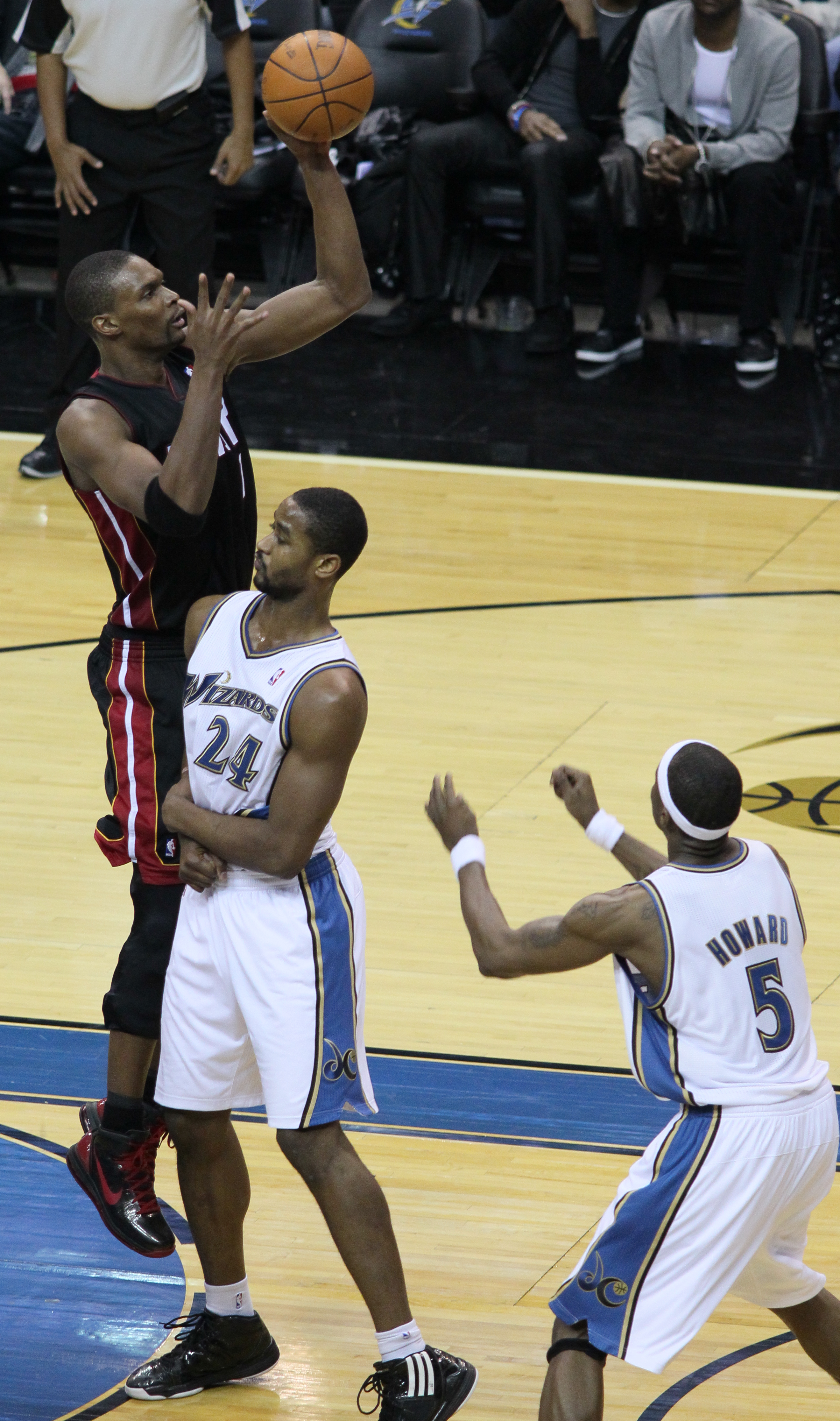 Washington Wizards v/s Miami Heat December 18, 2010